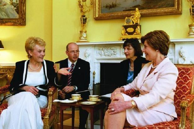 Laura Bush talks with Viktorie Spidlova, wife of the Prime Minister of the Czech Republic Vladimir Spidla, during a coffee hosted in her honor at the White House Tuesday, July 15, 2003. White House photo by Susan Sterner